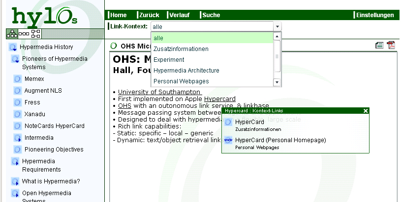 Multiple and contextsensitive links in hylOs.